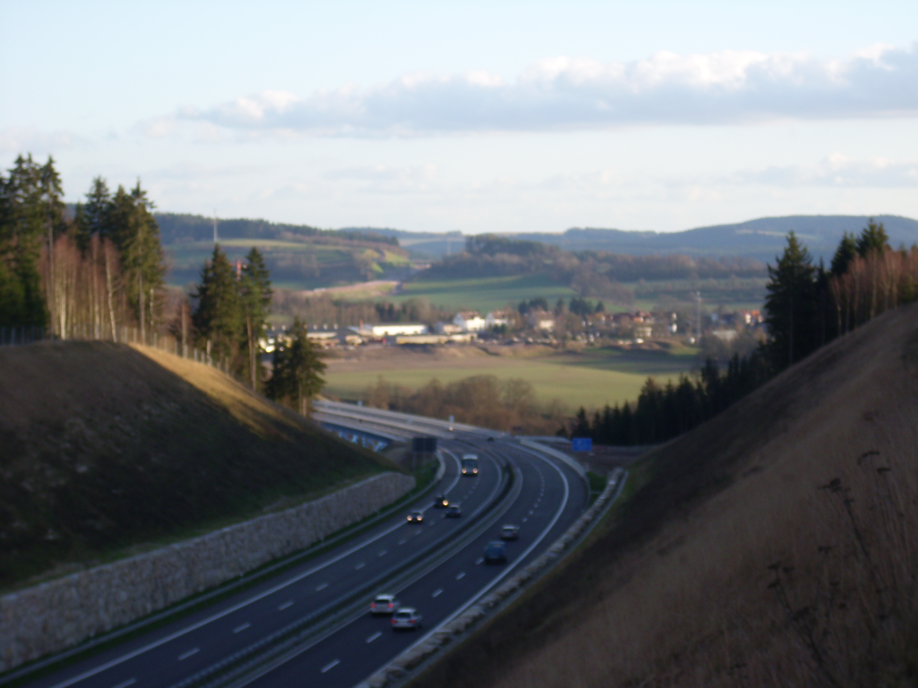 The A73 goes trough the Kohlberg, Germany.